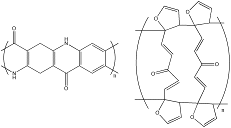 Two representative structures of different types of ladder polymers.